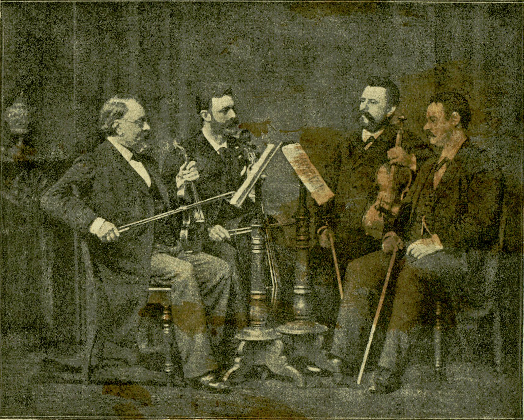 Joachim Quartett. Picture from Polish journal Echo muzyczne, teatralne i artystyczne, 1894, No.547 (12).